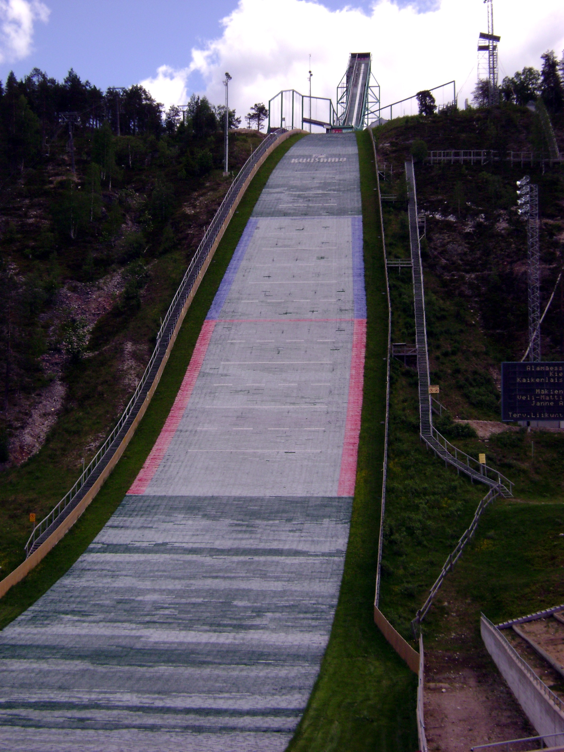 Ruka HS142 (K120) ski jumping hill in Kuusamo, Finland.